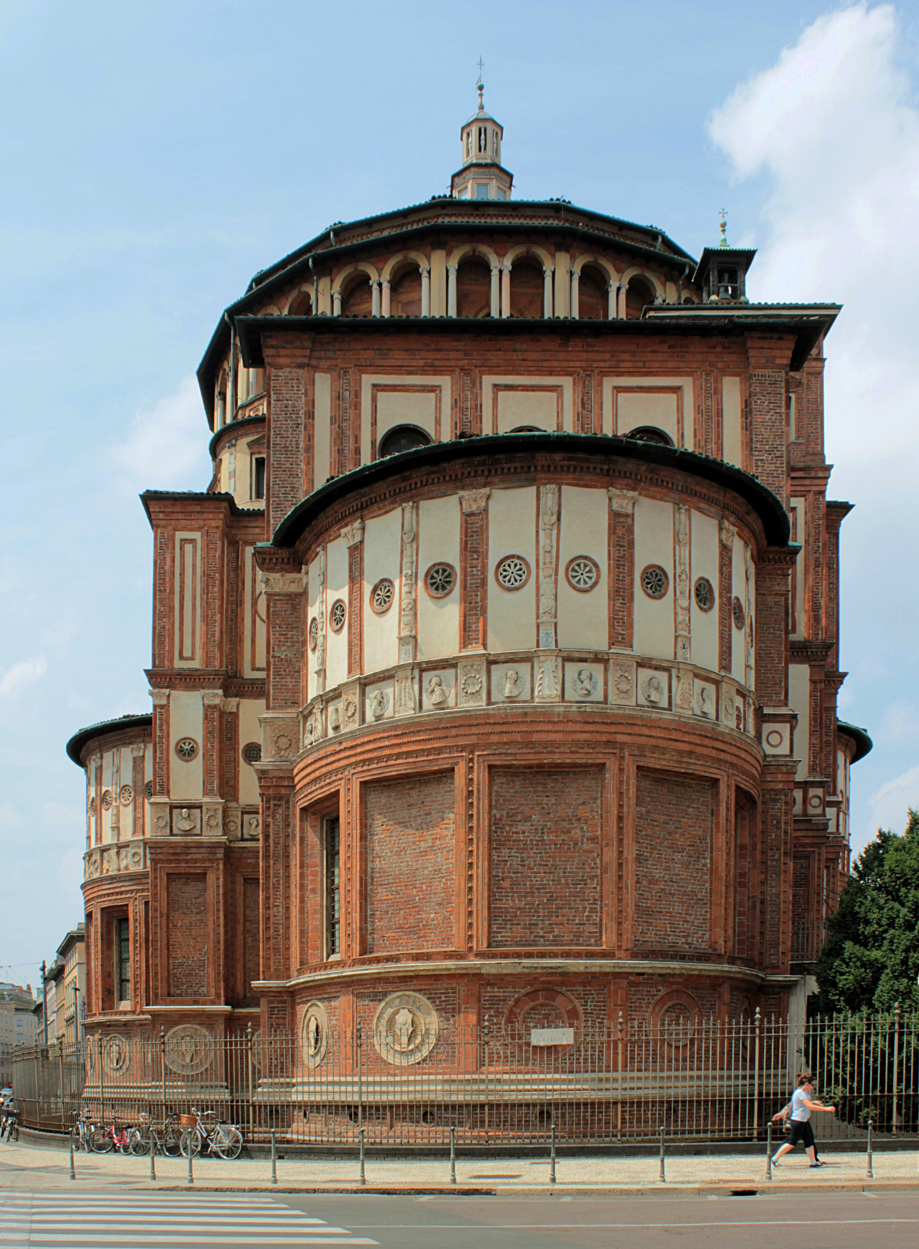 Milano, Santa Maria delle Grazie, exterior, apse